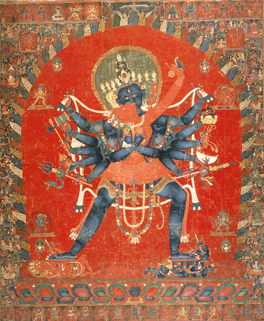 Tibet (by a Newar artist), Himalayas The Buddhist Deities Chakrasamvara and Vajravarahi Painting; Thangka, Mineral pigments and traces of gold on cotton cloth, 54 x 45 in. (137.16 x 114.3 cm) Made in: Tibet